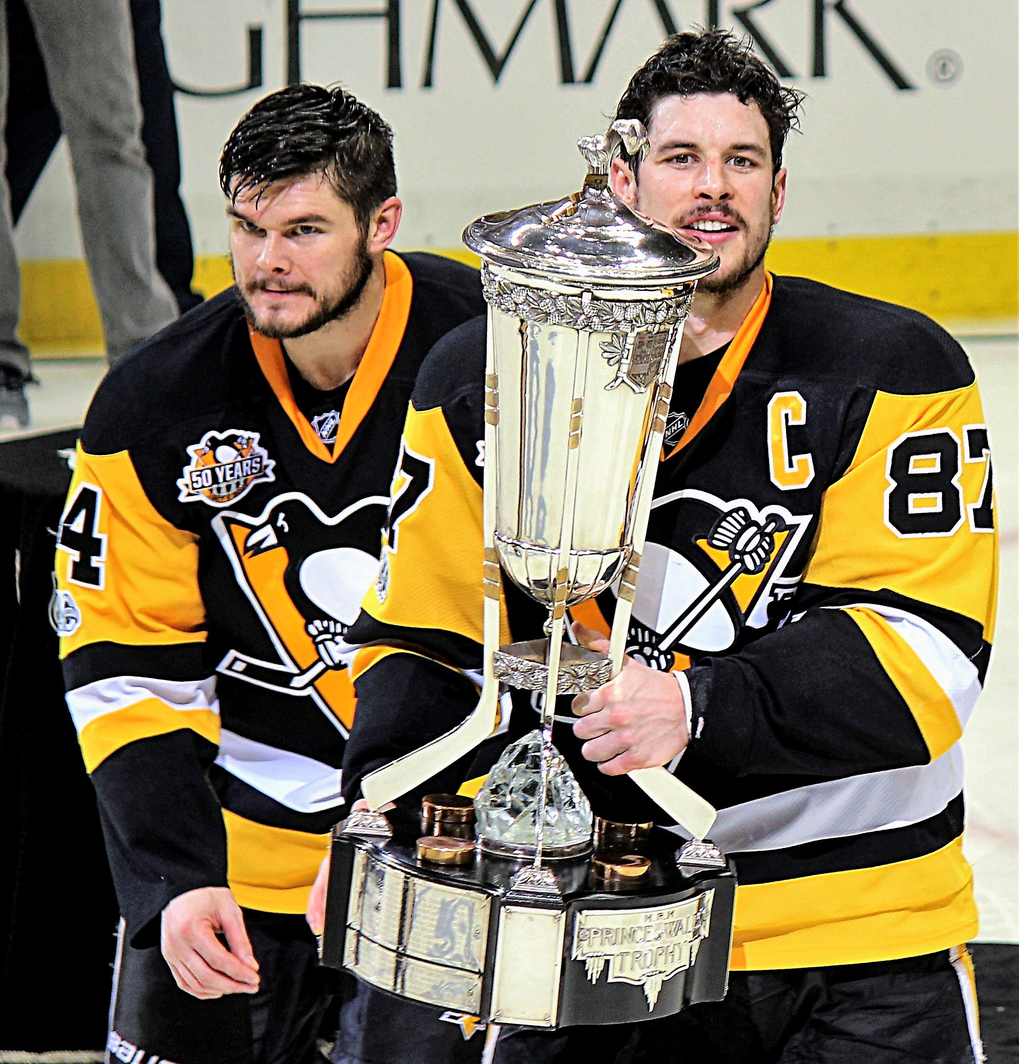 Sidney Crosby and Chris Kunitz with the Prince of Wales Trophy in 2017. Kunitz scored the series winning goal in double overtime of game 7 vs the Ottawa Senators, May 25, 2017, at Consol Energy Center in Pittsburgh, PA.